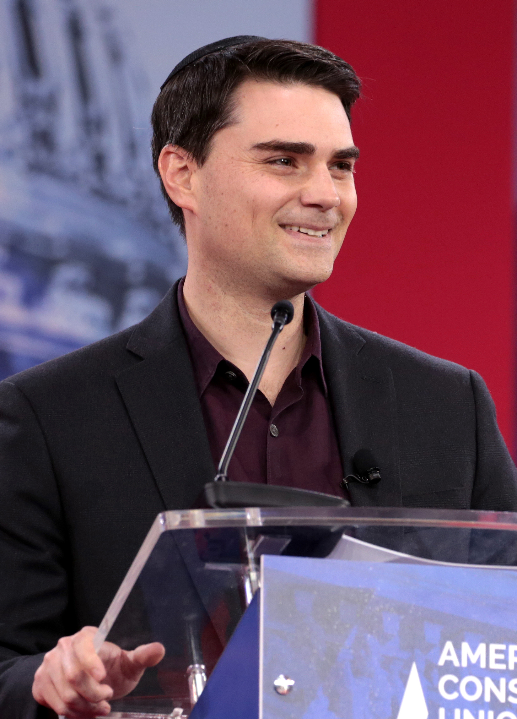 Ben Shapiro speaking at the 2018 CPAC in National Harbor, Maryland.